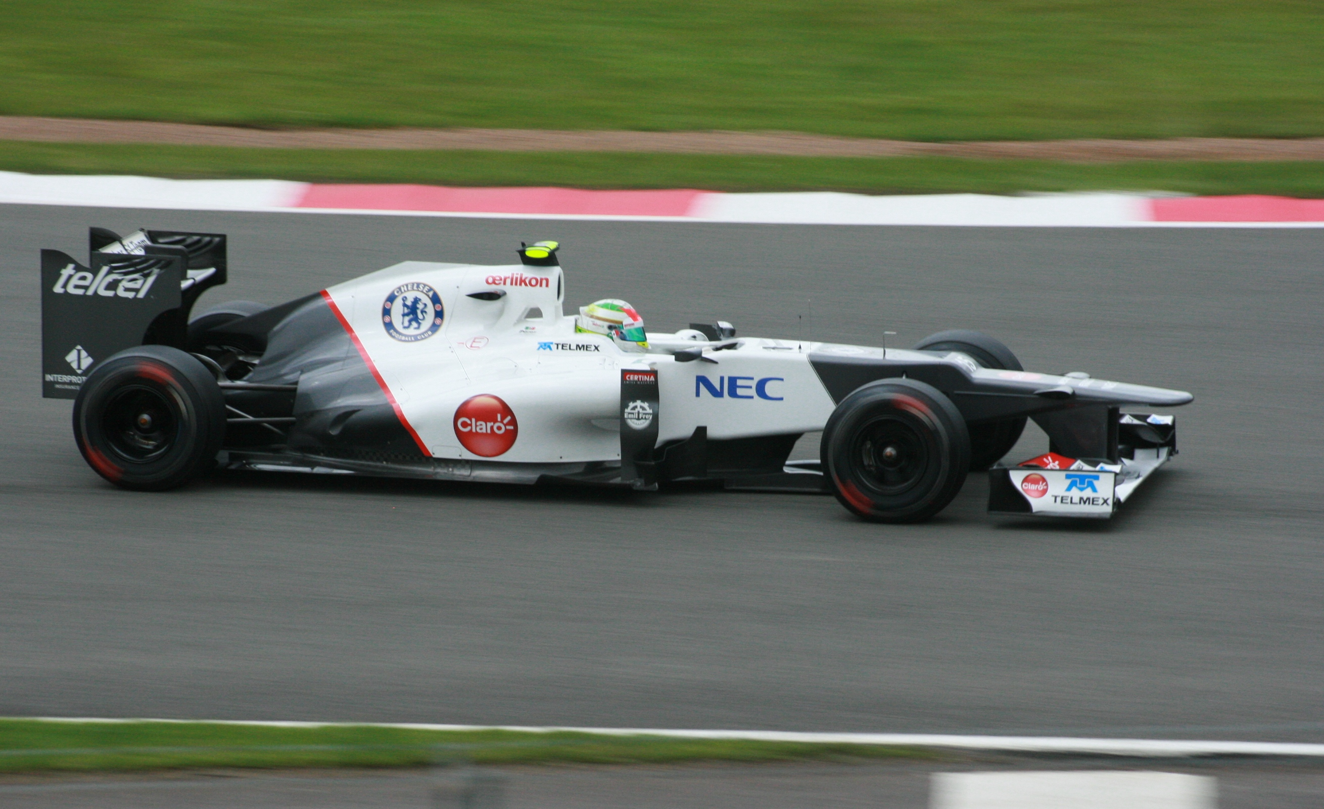 Sergio Pérez driving his Sauber C31 during the 2012 British GP.